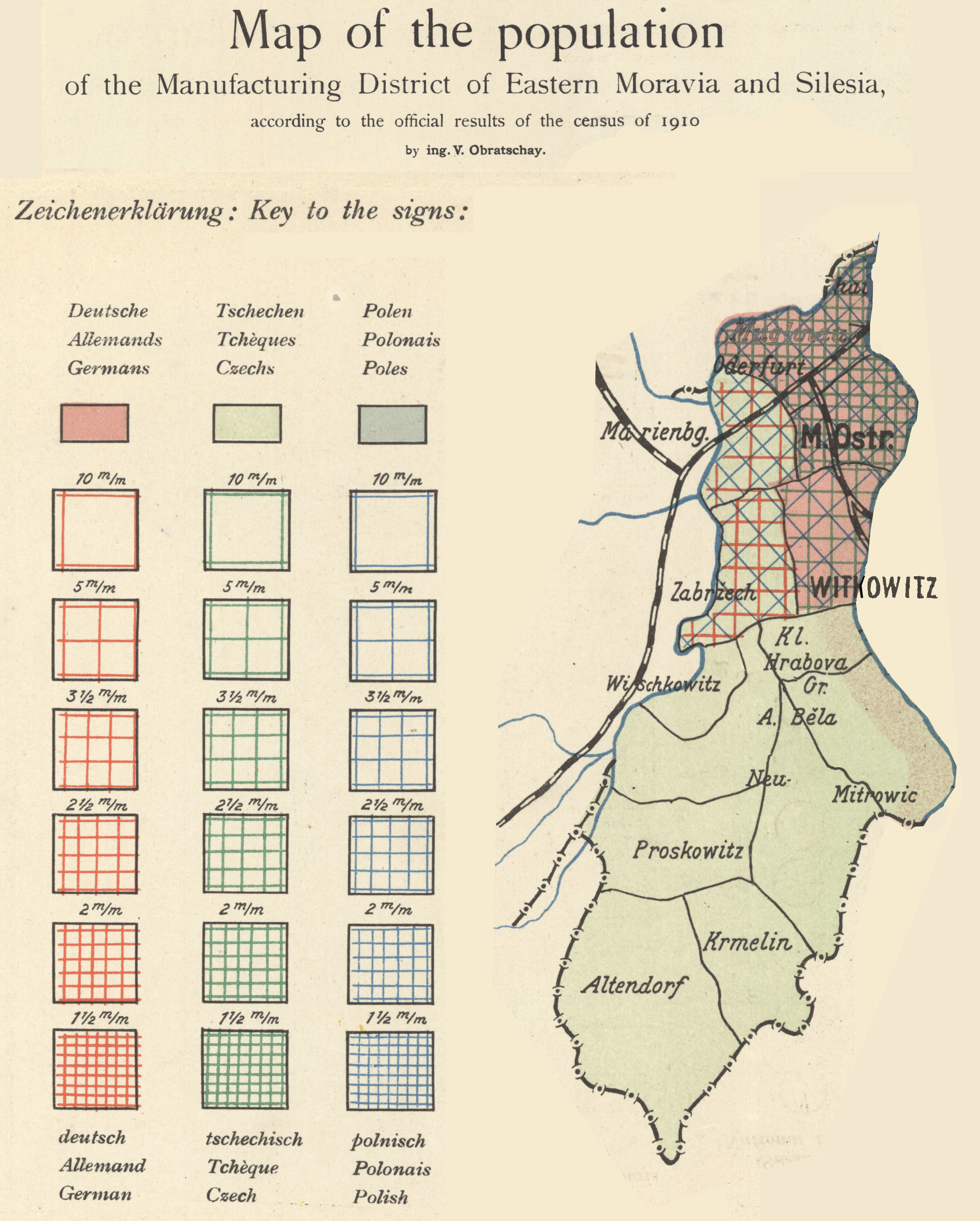 Cropped version of the File:Map of the population Manufacturing Distrct Eastern Moravia and Silesia.jpg to schow the Moravian Ostrava District